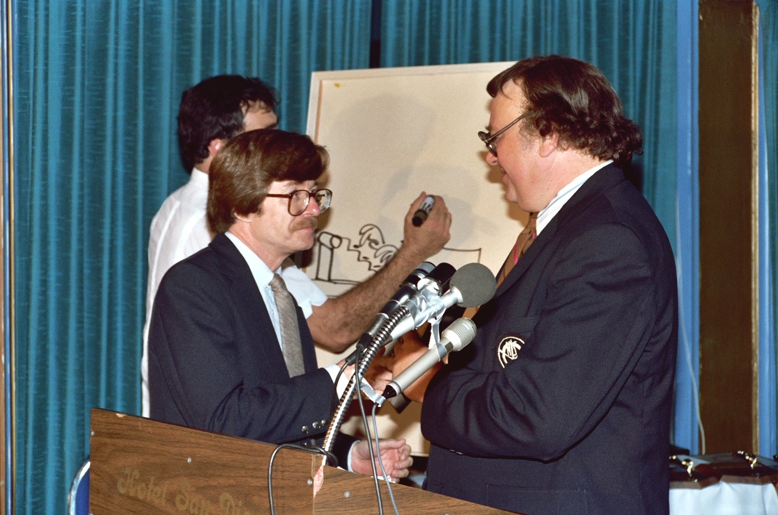 Archie Goodwin (1937-1998) receives an Inkpot Award from Shel Dorf at the 1982 San Diego Comic Con (today called Comic-Con International).